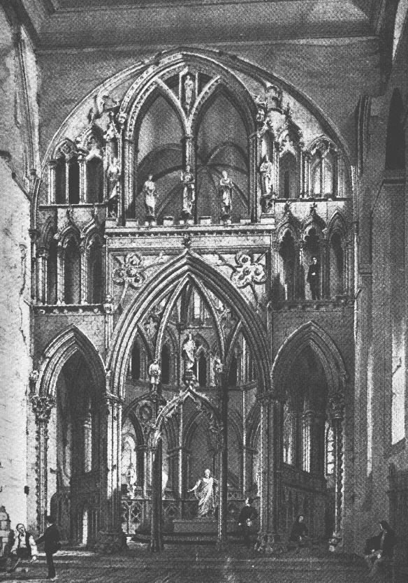 Interior of Nidaros Cathedral